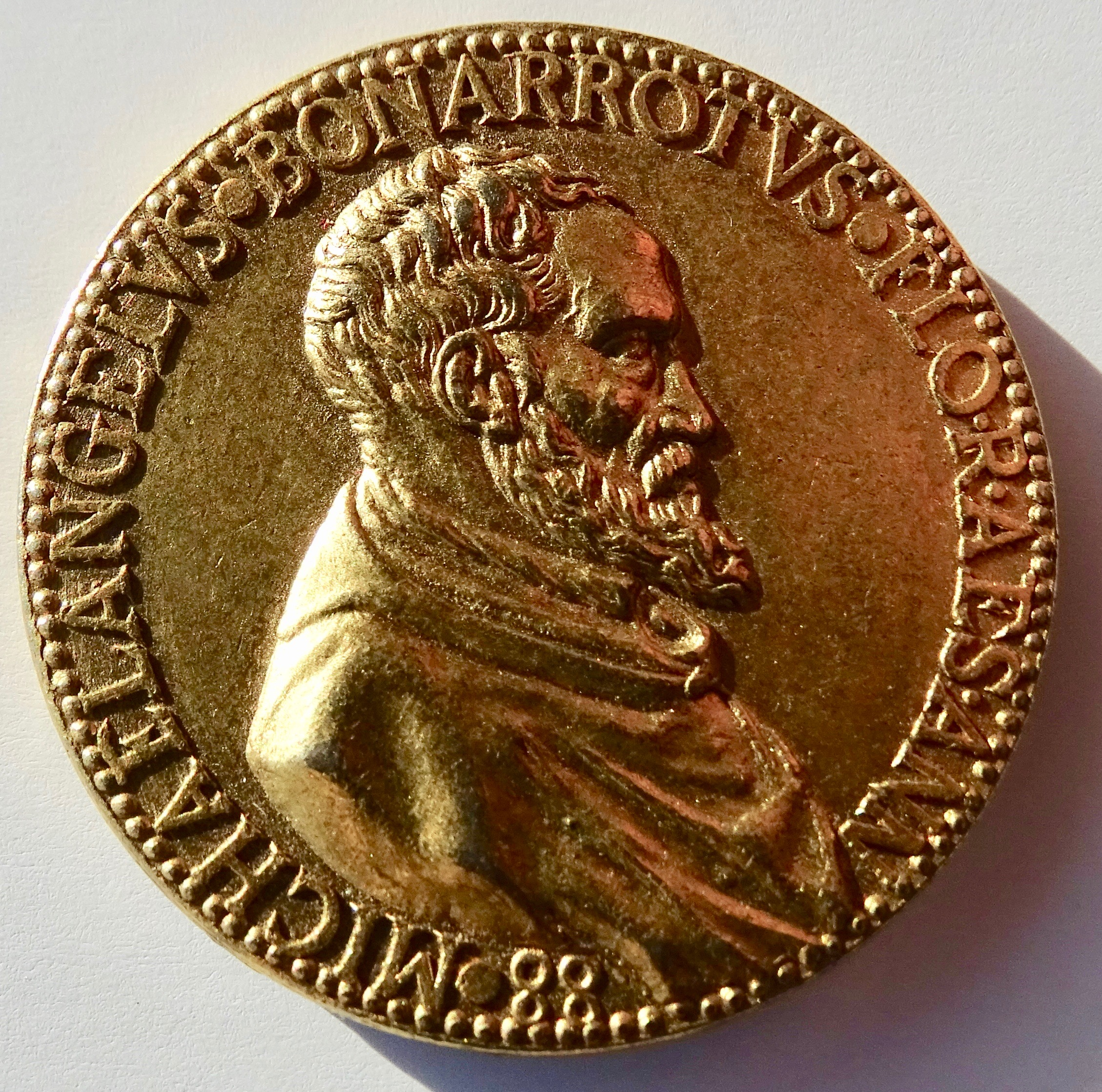 Michelangelo 88th Birthday Medal by Leone Leoni gilt Æ- 19th Century Electrotype. Bronze medallion, d. = 35 mm. 21.01 g. Michelangelo di Lodovico Buonarroti Simoni, 1475 Caprese near Arezzo, Republic of Florence (present-day Tuscany, Italy) – 1564 Rome, Papal States (present-day Italy) Portrait r., around: "· MICHAELANGELVS · BONARROTVS · FLO · R · AES · ANN 88 ·"/ Michelangelo walking r. being led right by guide dog. Forrer III, p. 400 Medallist: Leone Leoni, 1509 Menaggio near Lake Como, Italy - 1590 Milan Condition: Nice EXTREMELY FINE+.